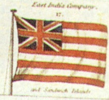 British East India Company flag. Image from flag chart by R.H. Laurie, 1842.